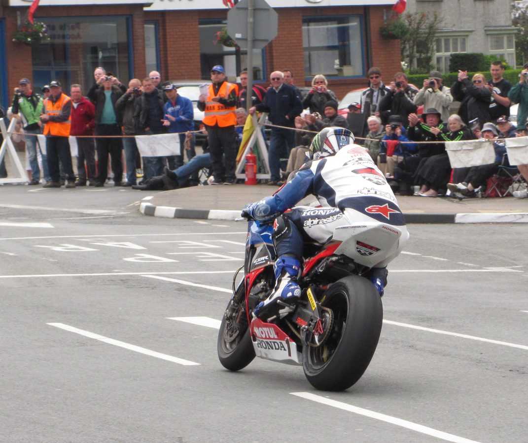 Description : Isle of Man TT Races Date : 2nd June 2012 Source : Agljones at en.wikipedia Permission See below.